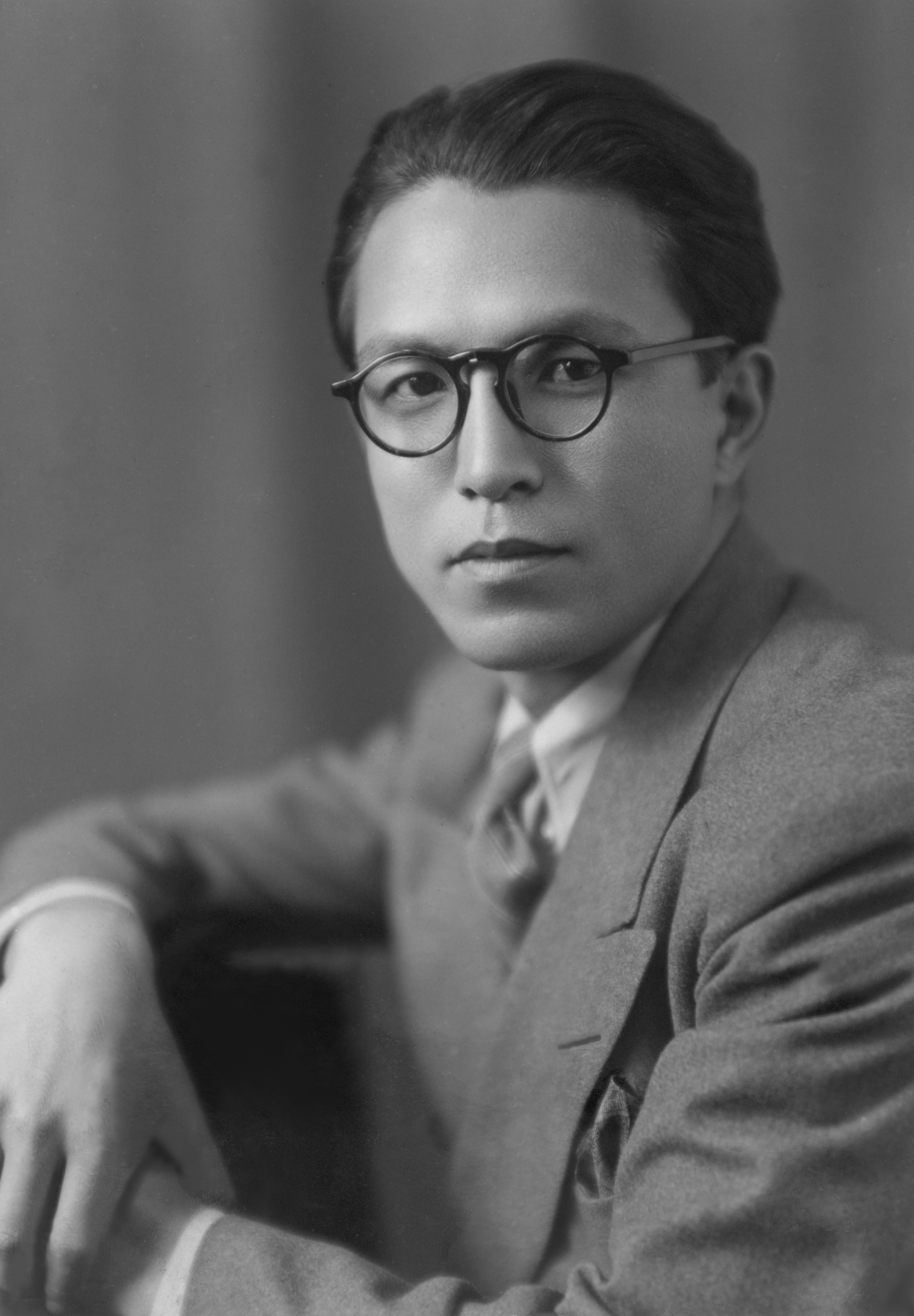 Fujio Ikeda,Japanese composer and producer.